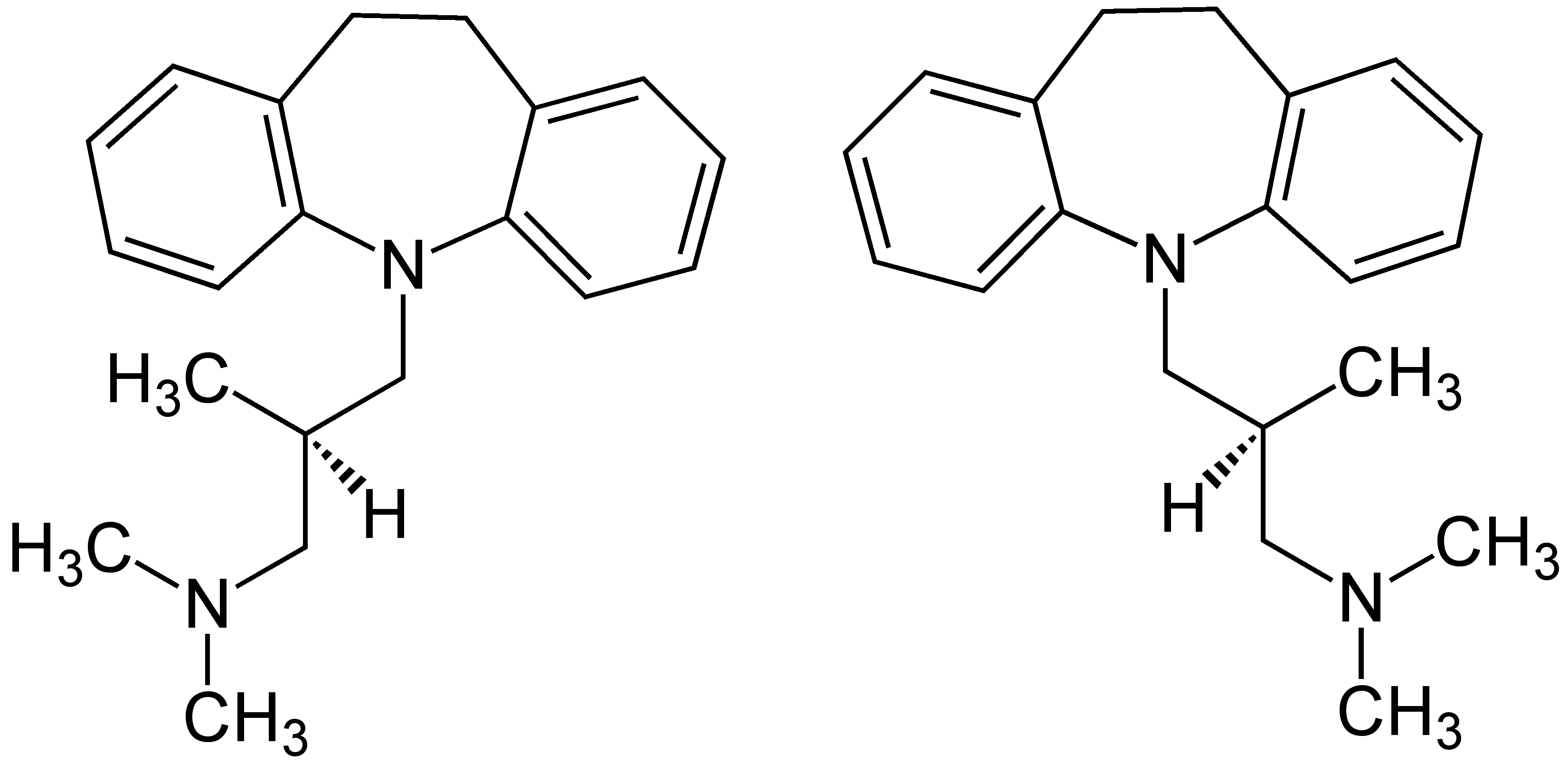 (±)-Trimipramine_Enantiomers_Structural_Formulae